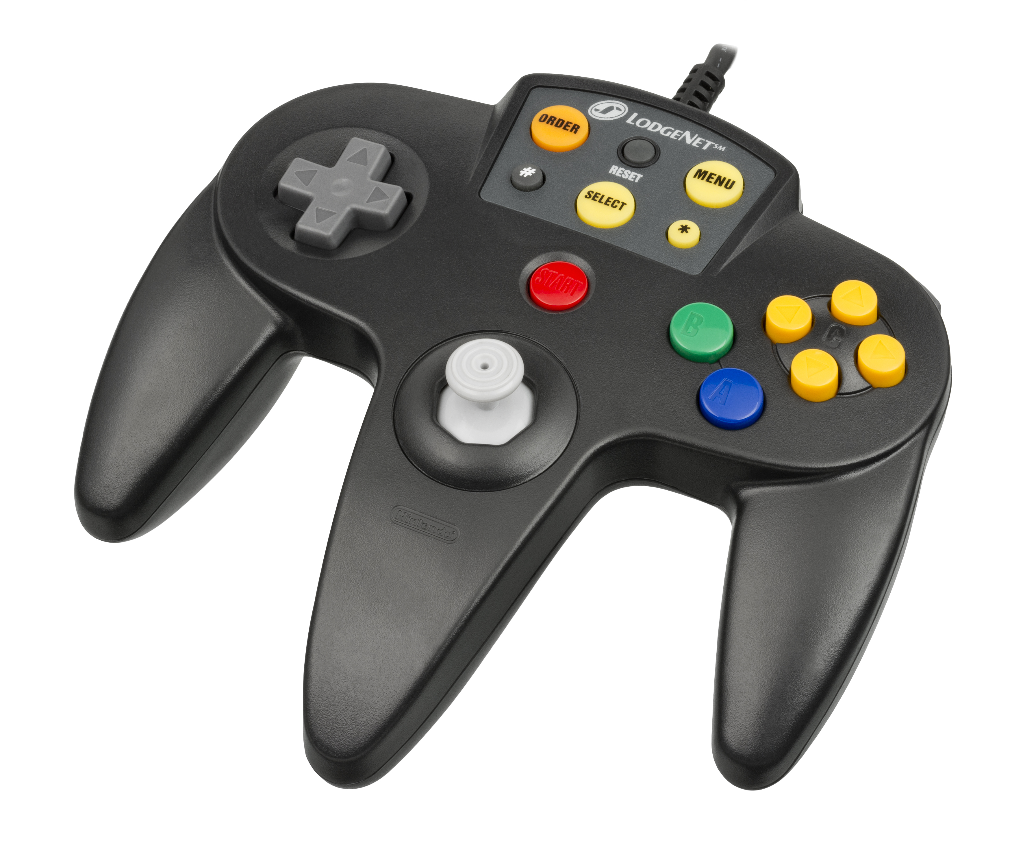 A LodgeNet Nintendo 64/N64 controller that can be found in various US hotels. It offers pay-to-play service of N64 games to hotel guests in their rooms.